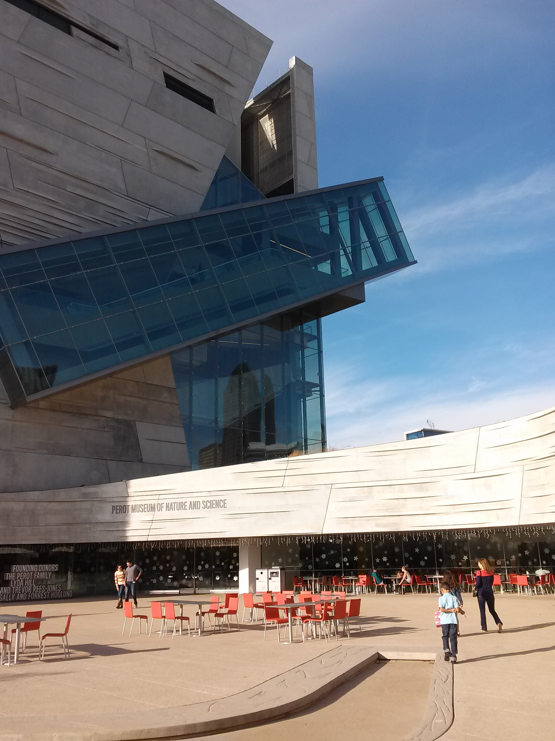 Perot Museum of Nature and Science